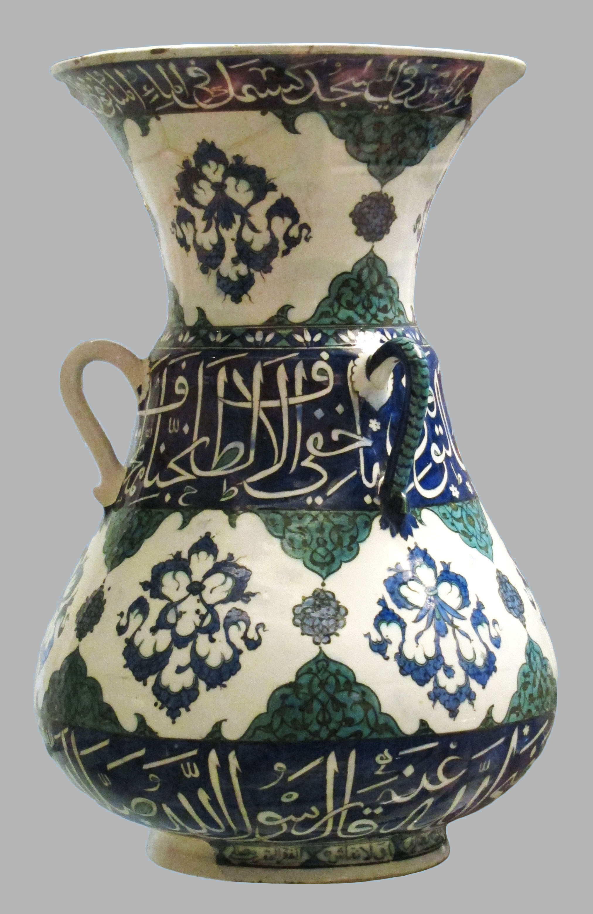 Iznik Mosque lamp signed by Musli. Probably made for the refurbishment of the Dome of the Rock in Jerusalem. The lamp is painted in black, two shades of blue and grey-green. It has an open base.